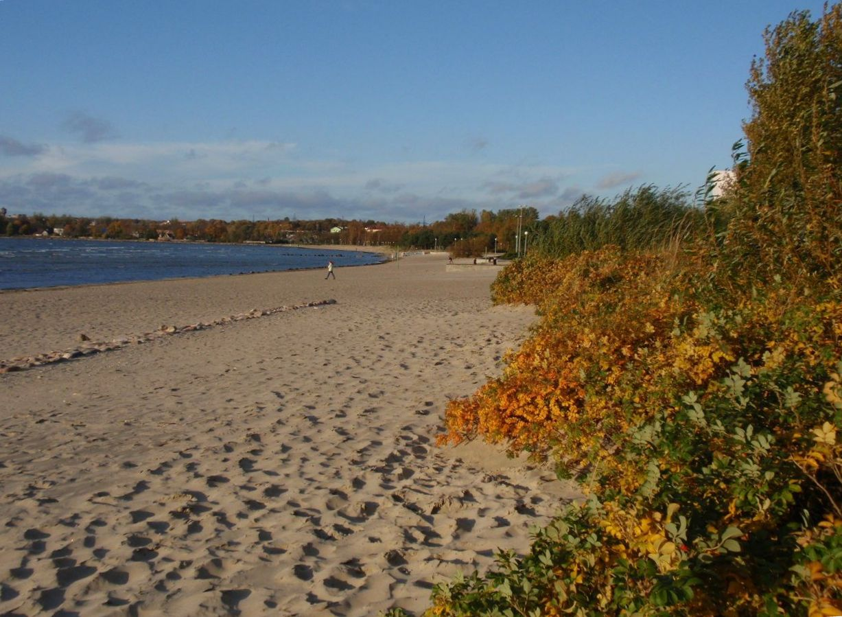 Stroomi beach in Tallinn, autumn 2008